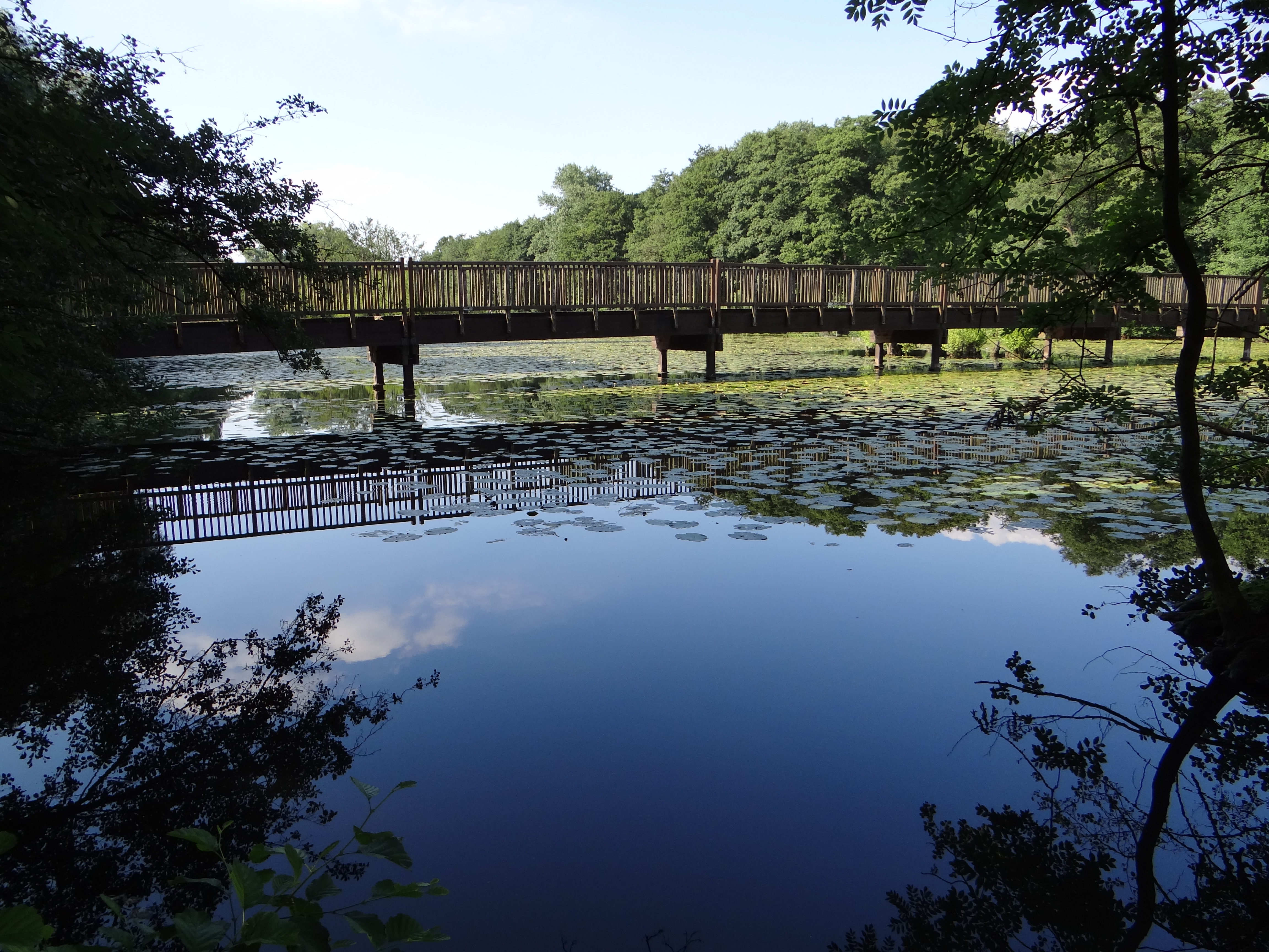 "Niepkuhlen" and footbridge in the "Niepkuhlen" nature reserve in Krefeld, Germany